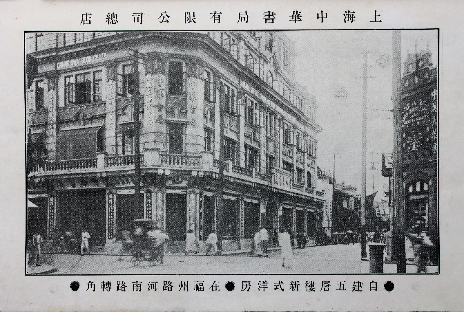 The headquarters of Zhonghua (Chunghwa) Book Company in Fuzhou Road, Shanghai, China in 1916. 中文（中国大陆）: 1916年建成的中华书局上海福州路大厦